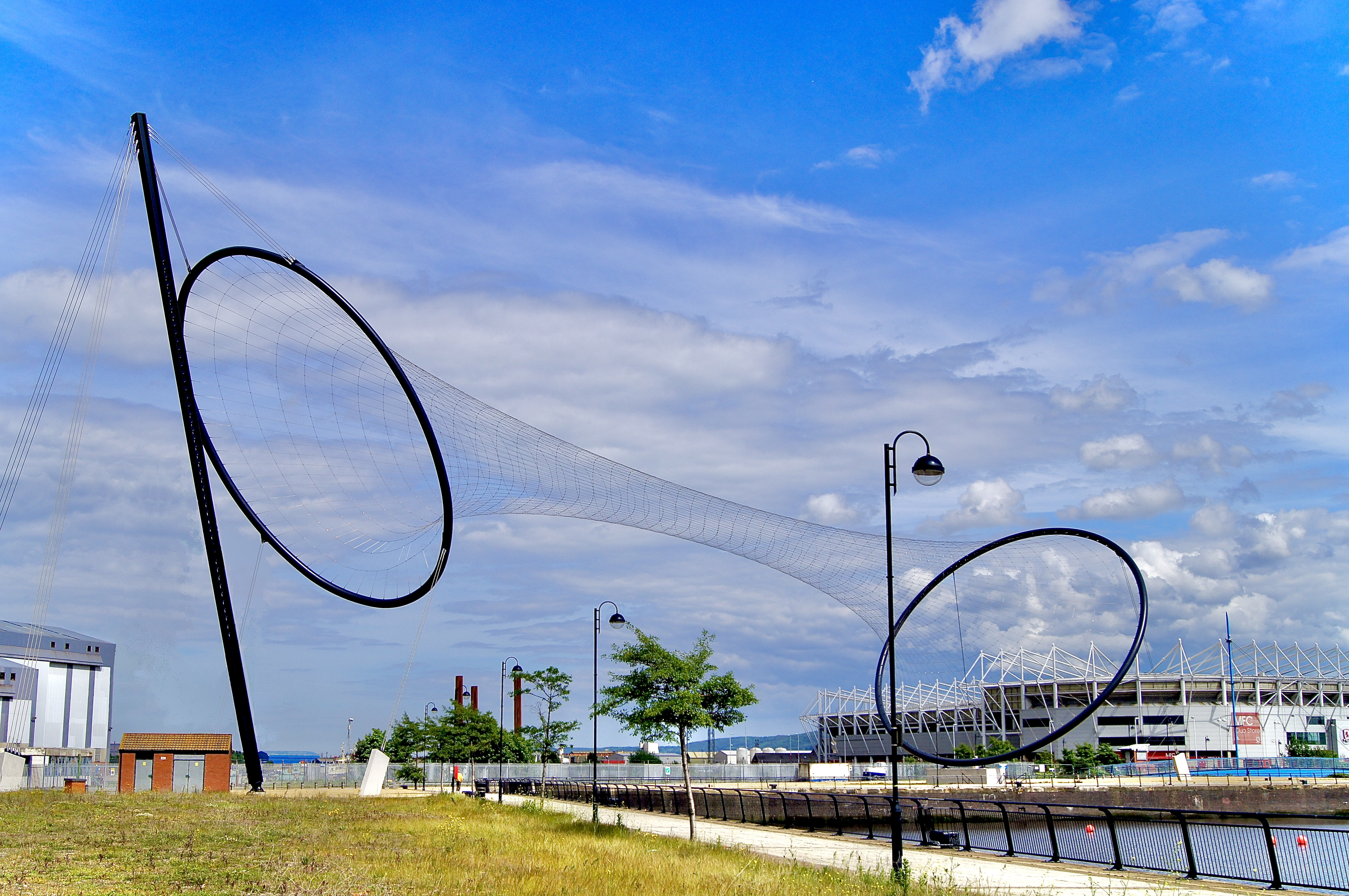 Temenos sculpture taken from the south west, showing Middlesbrough F.C. Riveside Stadium in the background.